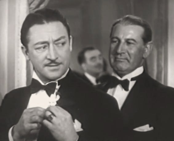 Theodore von Eltz (left) and Morgan Wallace in The Headline Woman - cropped screenshot